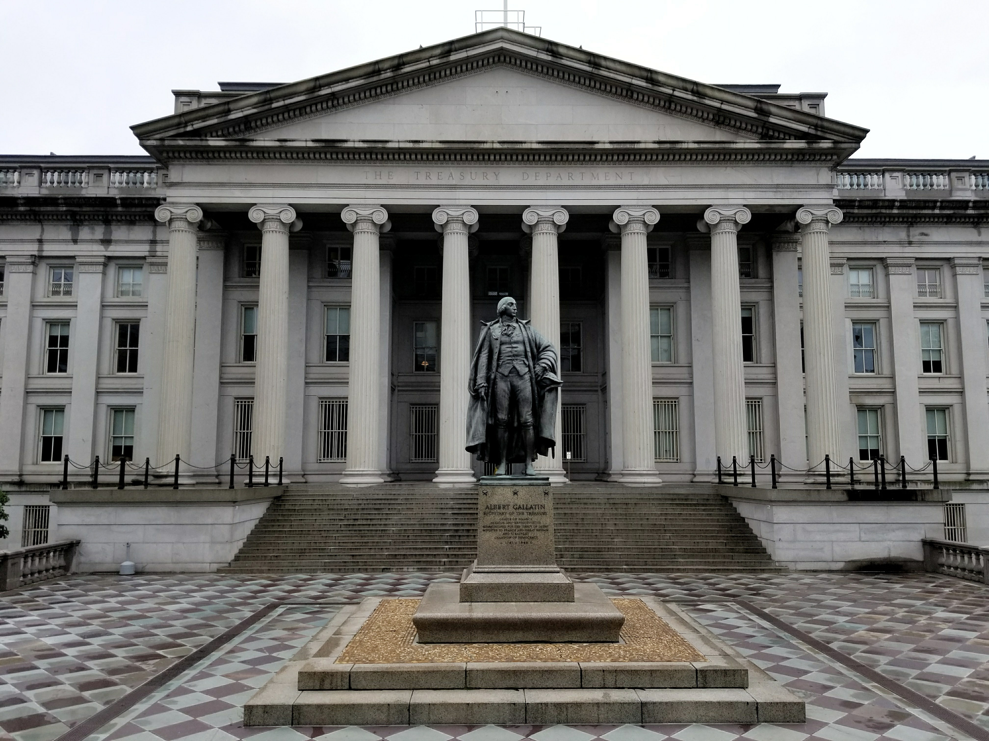 A view of the North entrance of the U.S. Treasury Building in Washington D.C.